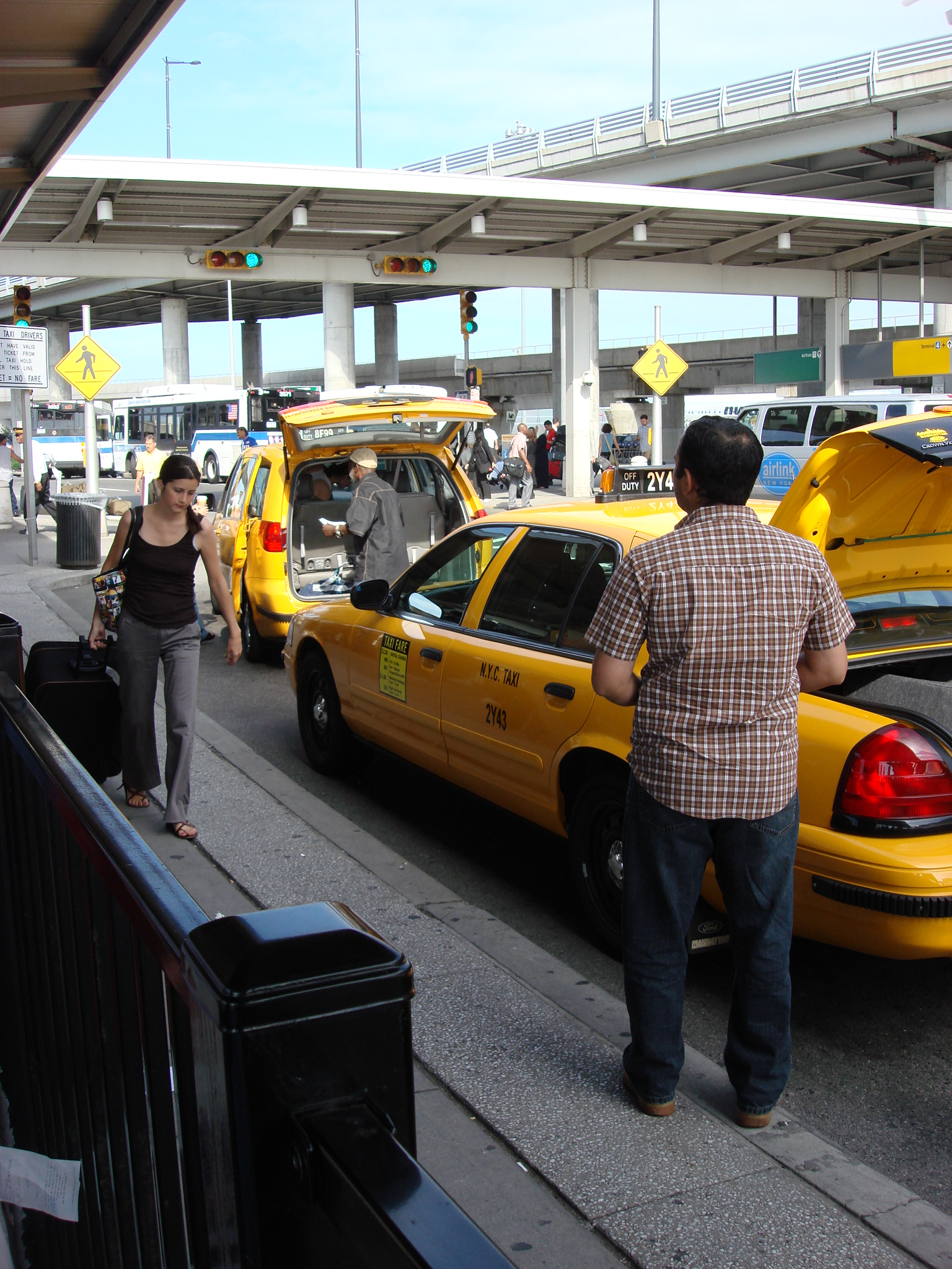 Taxi Stand at JFK Airport